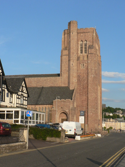 Oban: Catholic cathedral church of St. Columba The imposing tower of the Catholic cathedral, on the north side of Oban Bay.